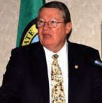 Randy "Duke" Cunningham speaks at a ceremony dedicating a bar to the "MiG Killers" of the Vietnam War Jan. 14, 2005 at the Marine Corps Air Station Miramar Officers' Club. Cunningham, an F-4J Phantom Navy pilot during the Vietnam War, and his former Radar Intercept Officer (RIO), retired Cmdr. William "Irish" Driscoll, were the first and only U.S. flying aces of the Vietnam War to have three kills in one day.